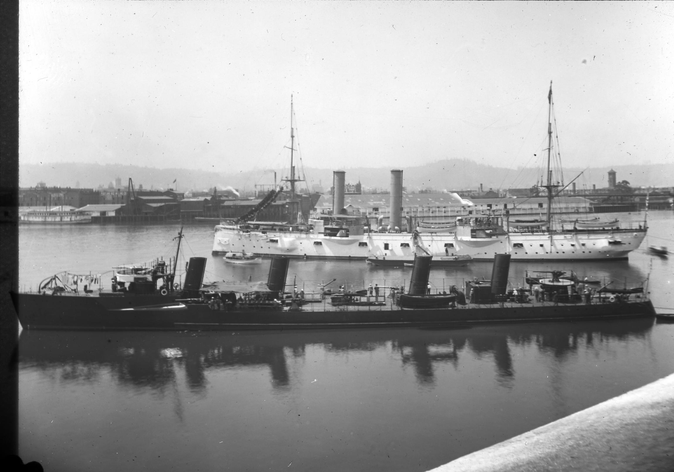 The USS Chicago (1885) (back) and USS Perry (DD-11) (front) at the Lewis and Clark Centennial Exposition in June, 1905. Description/Notes: Photo shows a scene from the Lewis and Clark Exposition held at Portland, Oregon in 1905. Original Collection: Visual Instruction Department Lantern Slides Item Number: P217:set 049 slide 022 You can find this image by searching for the item number by clicking Want more? You can find more We're happy for you to share this digital image within the spirit of The Commons; however, certain restrictions on high quality reproductions of the original physical version may apply. To read more about what “no known restrictions” means, please visit the or contact staff at the OSU Special Collections & Archives Research Center for details.